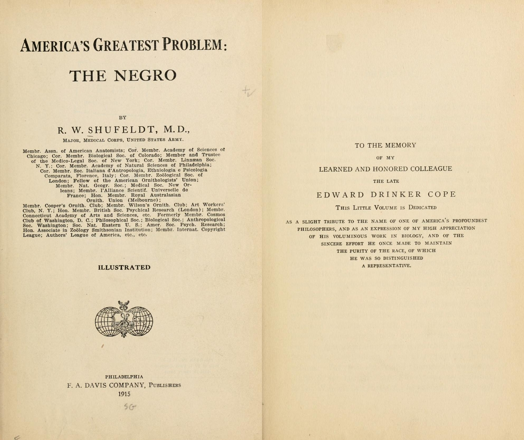 Dedication of R W Shufeldt's book to Edward Drinker Cope